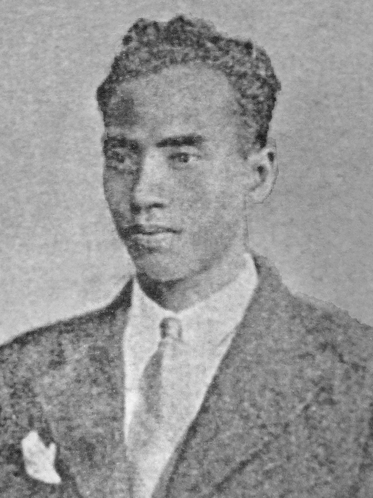 Photograph of Bachtiar Effendi